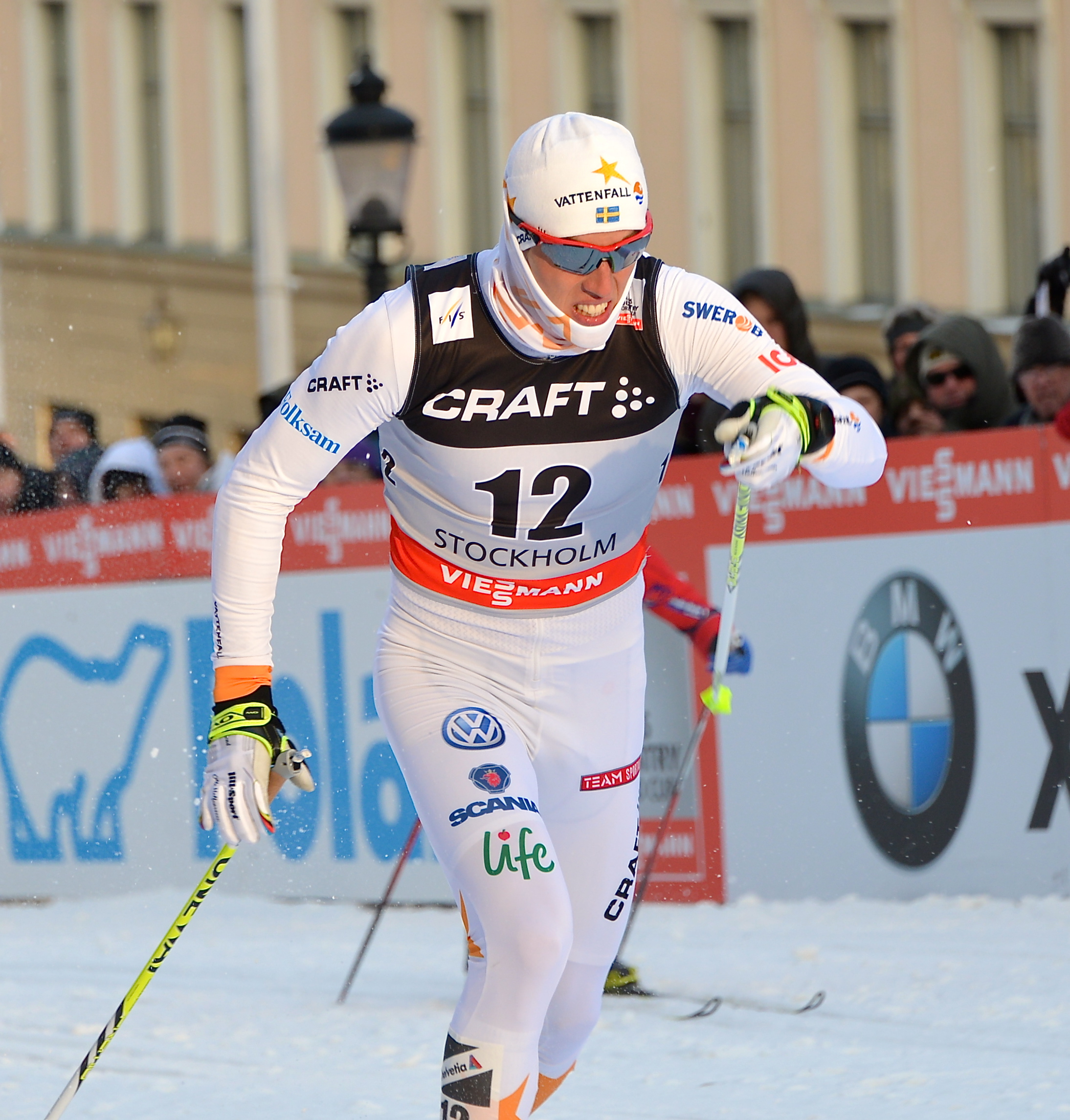 Calle Halfvarsson at the Royal Palace Sprint, part of the FIS World Cup 2012/2013, in Stockholm on March 20, 2013.